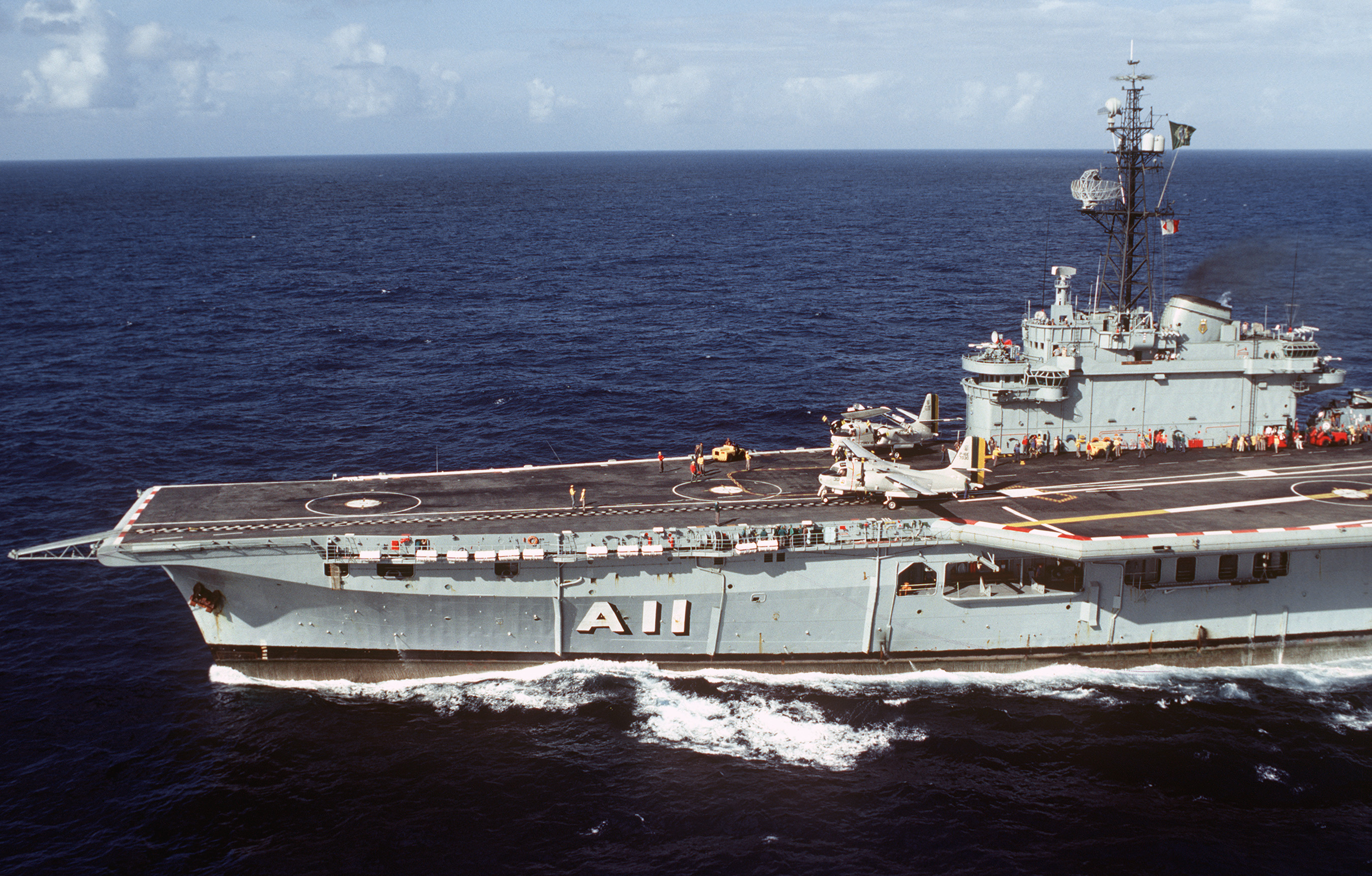 A port view of the forward half of the Brazilian aircraft carrier MINAS GERAIS (A 11) underway during UNITAS XXV, the silver anniversary hemispheric naval exercise involving Brazil, Chile, Colombia, Ecuador, Peru, the United States, Uruguay and Venezuela.